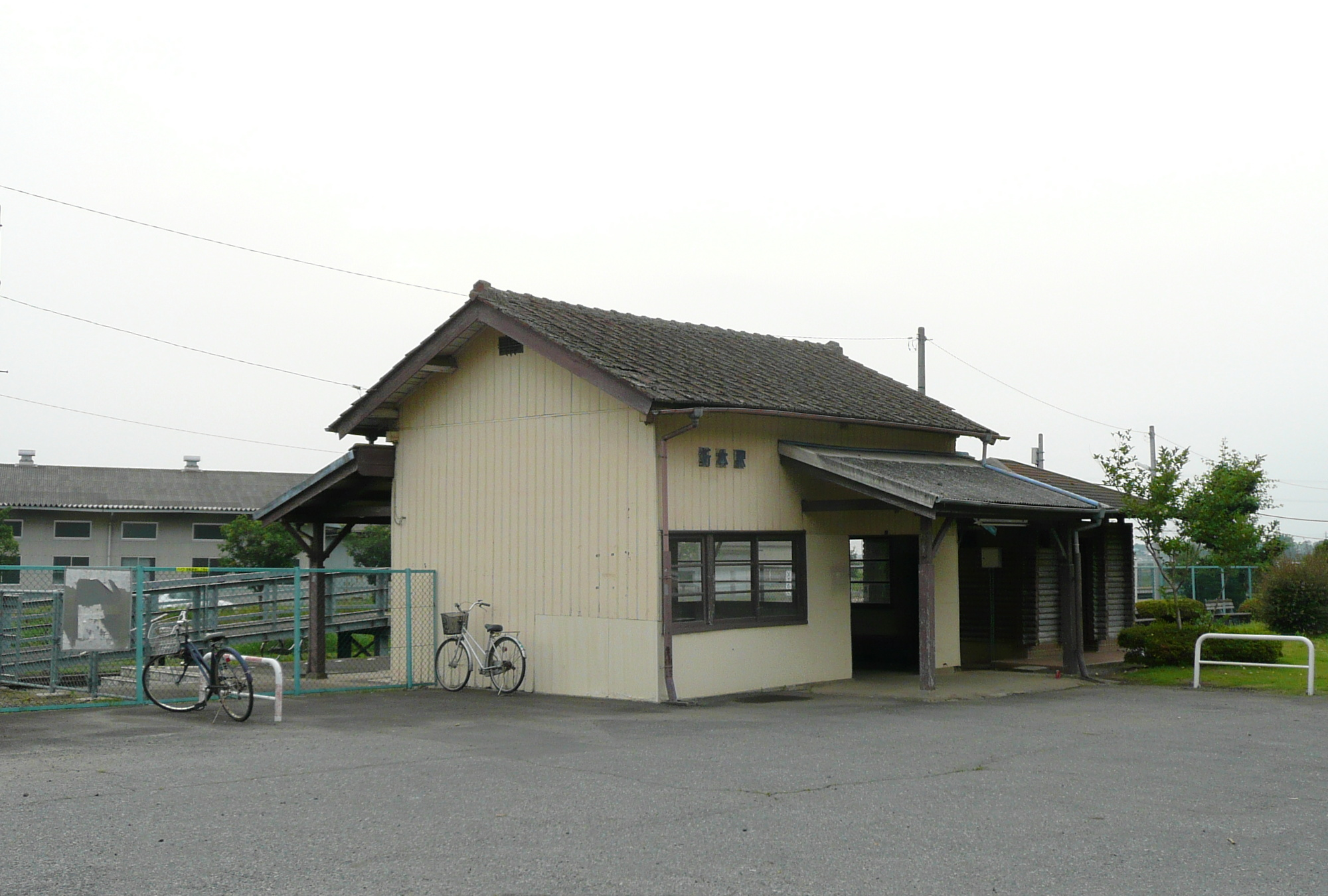 Orimoto Station,Moka Railway.